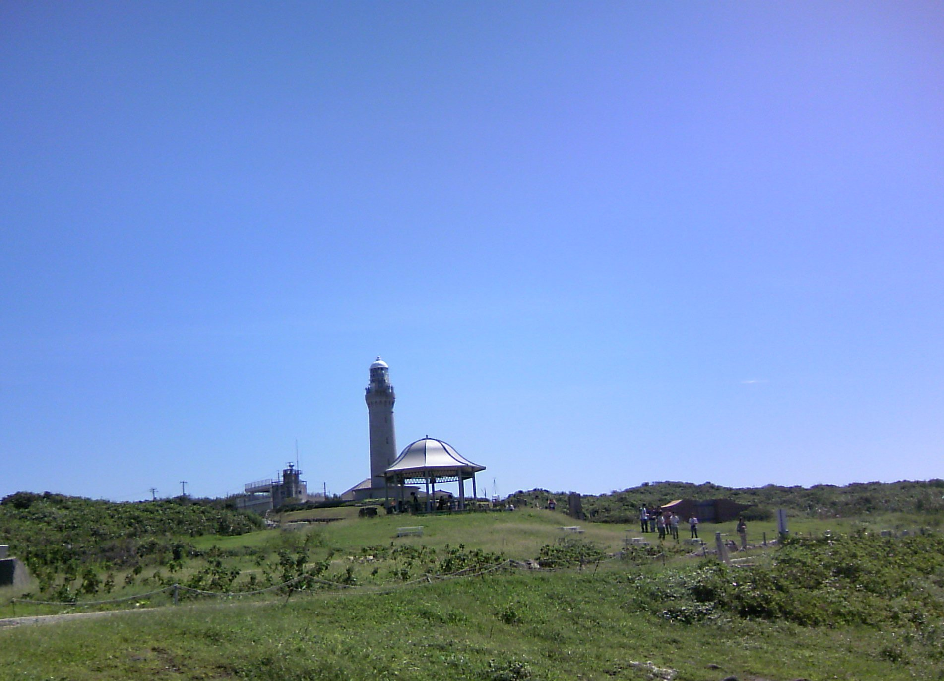 Tsunoshima Lighthouse